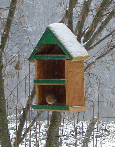 European robin Erithacus rubecula, Haute-Savoie, France